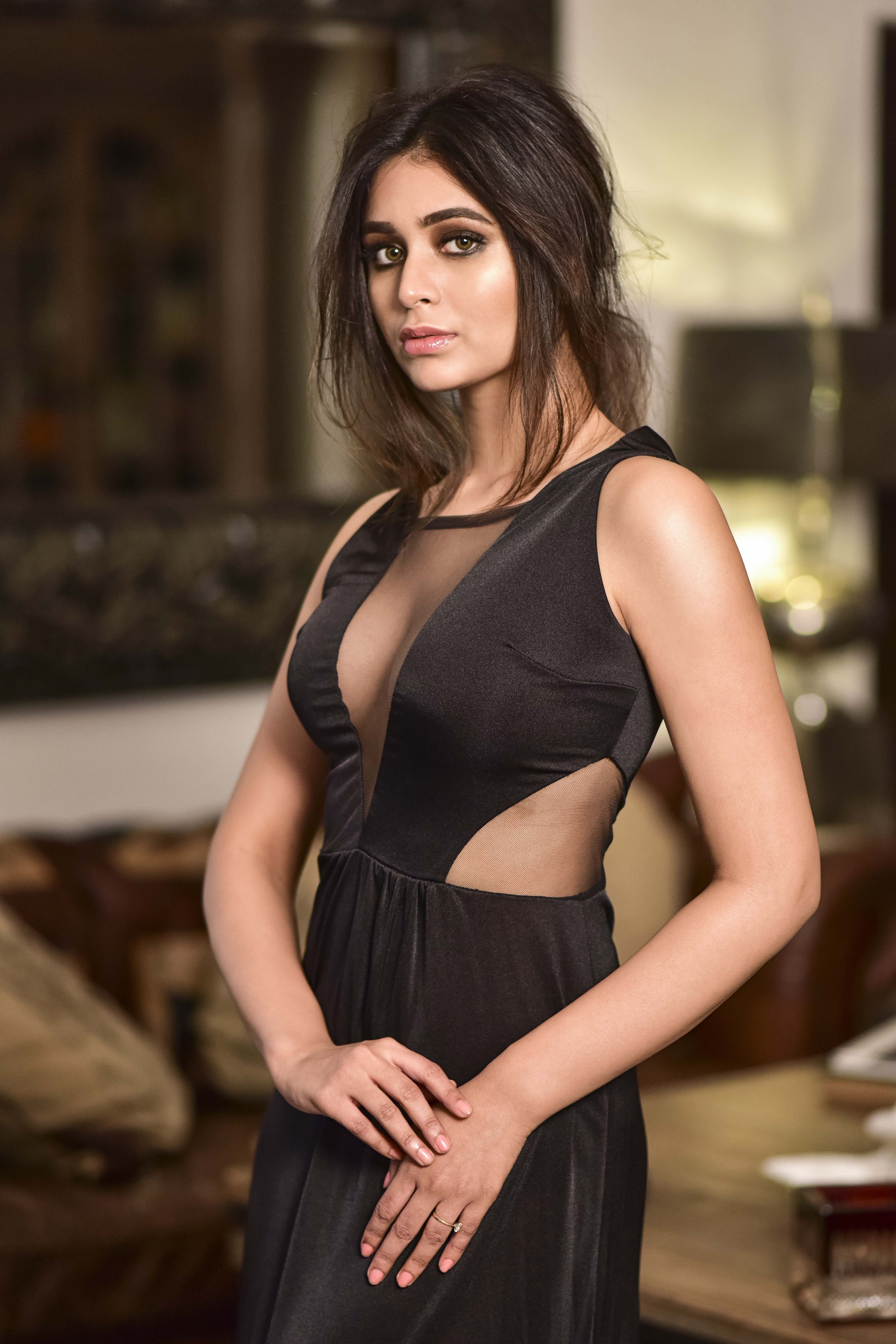 ritabhari for a campaign